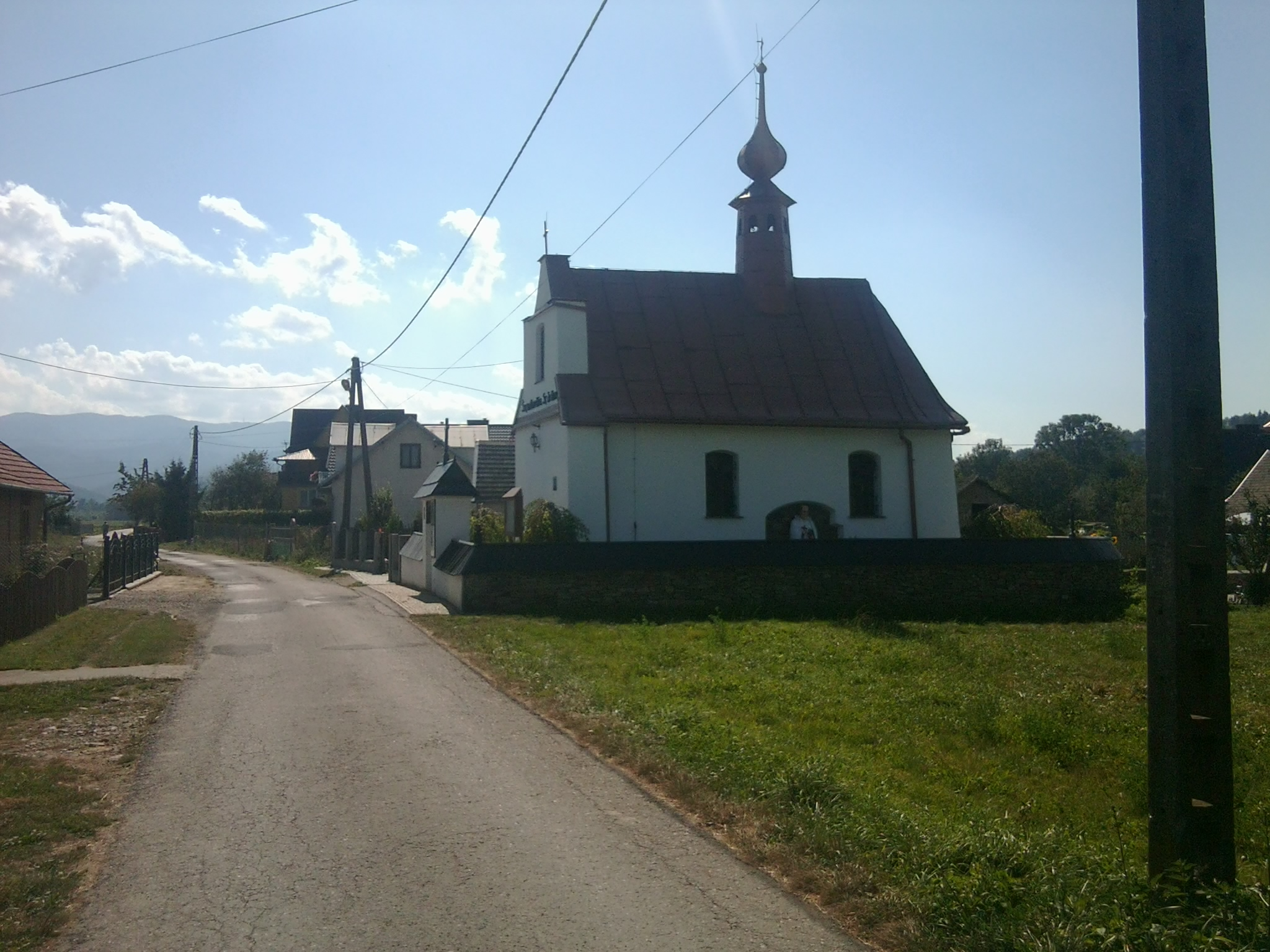 Chapel of Saint Anne in Podegrodzie (Lesser Poland Voivodeship)